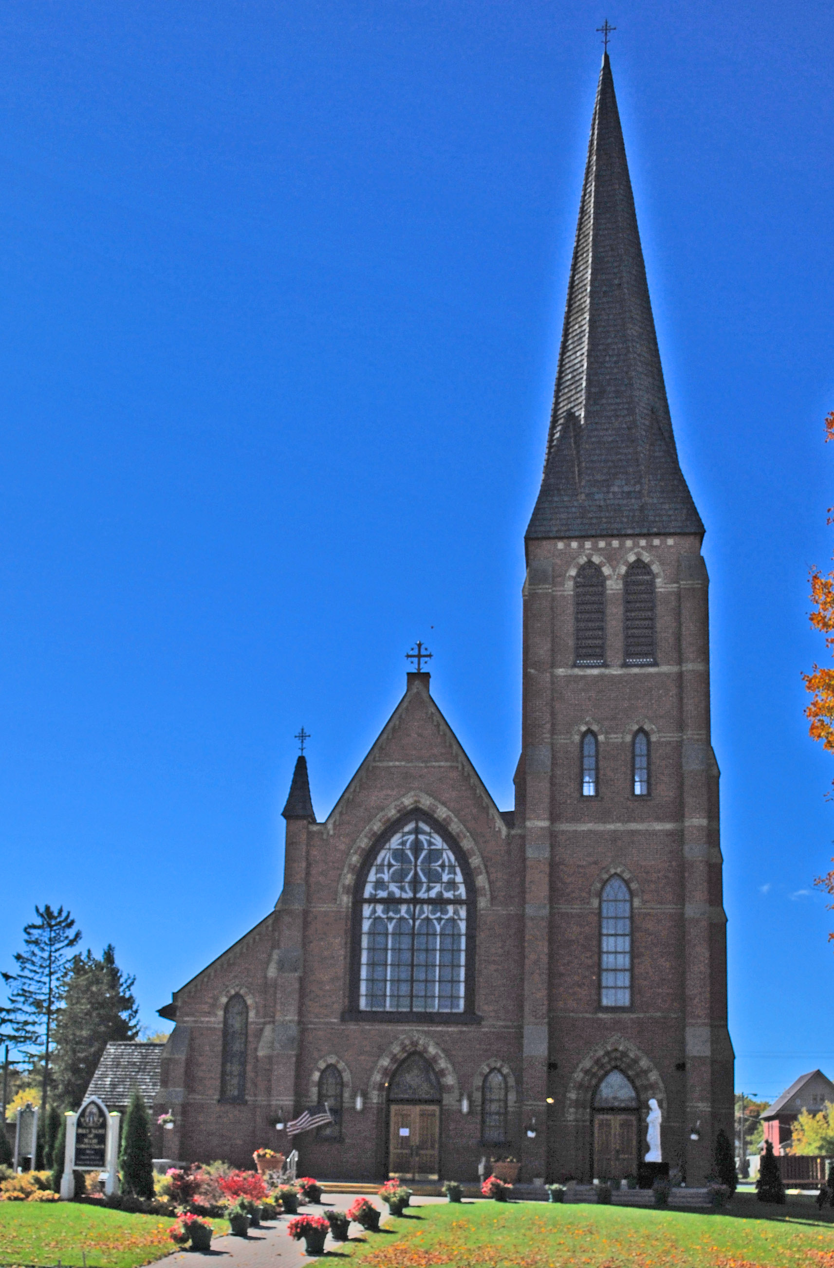 Holy Name of Mary Pro-Cathedral, also known as St. Mary’s Pro-Cathedral, is the original cathedral church for the Diocese of Marquette. The historic church is located in Sault Ste. Marie, Michigan, United States. It is one of the oldest Catholic parishes in the United States and was listed on the National Register of Historic Places in 1984 and designated a state of Michigan historic site in 1989. It is also the oldest Catholic Cathedral in Northern Michigan.